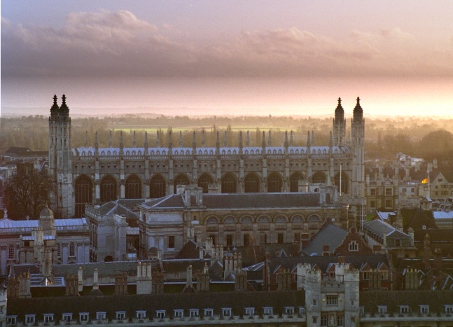 View over Trinity College, Gonville and Caius and Clare College towards King's College Chapel, seen from St Johns College chapel, Cambridge (UK). On the left, just in front of King's College chapel, is the Cambridge University Senate House. Photo by Bob Tubbs, 1997.